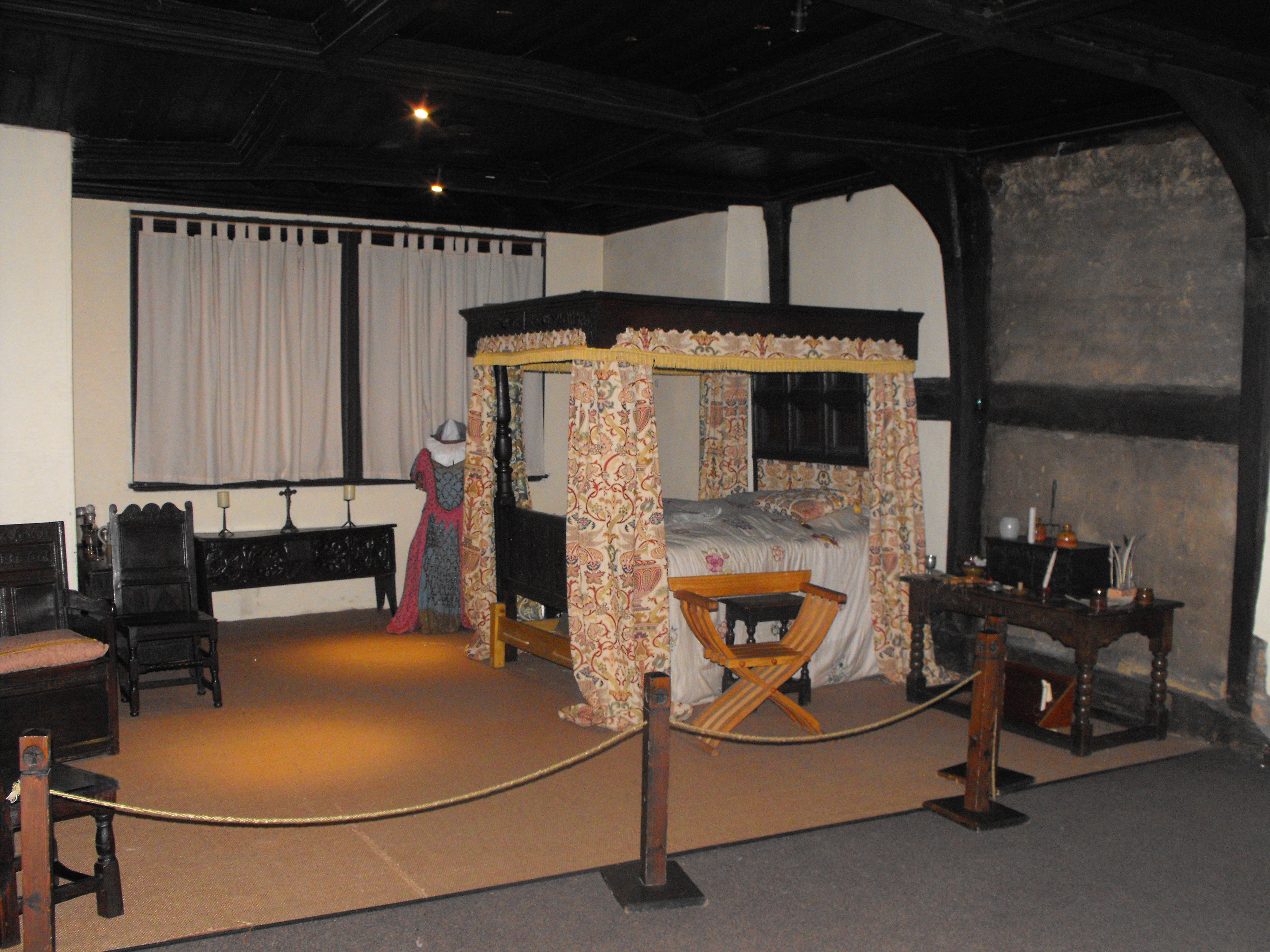 The Star Chamber in Ordsall Hall, the oldest part of the building.